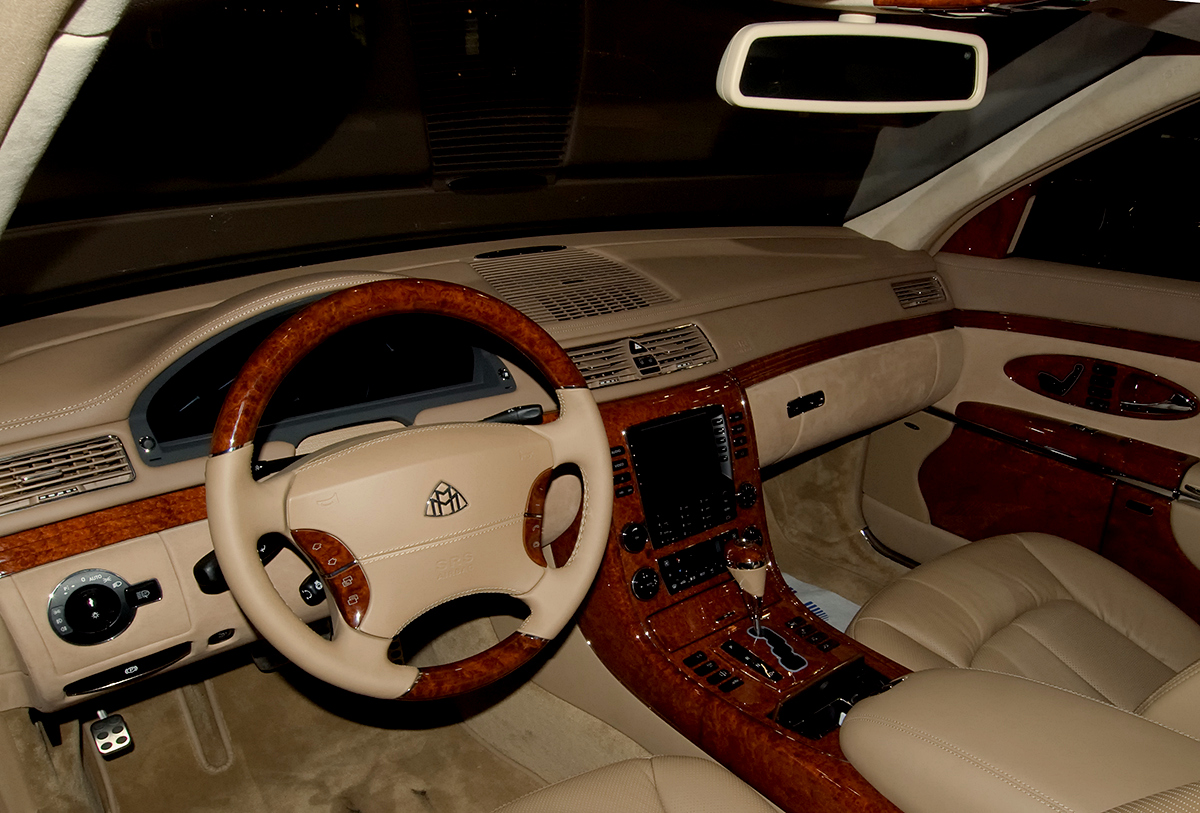 Maybach.Cockpit.